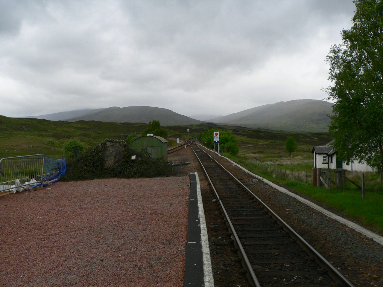 The West Highland Line, looking north from Rannoch railway station in Perth and Kinross. From there the line winds its way accross Rannoch Moor through the mountains to Fort William